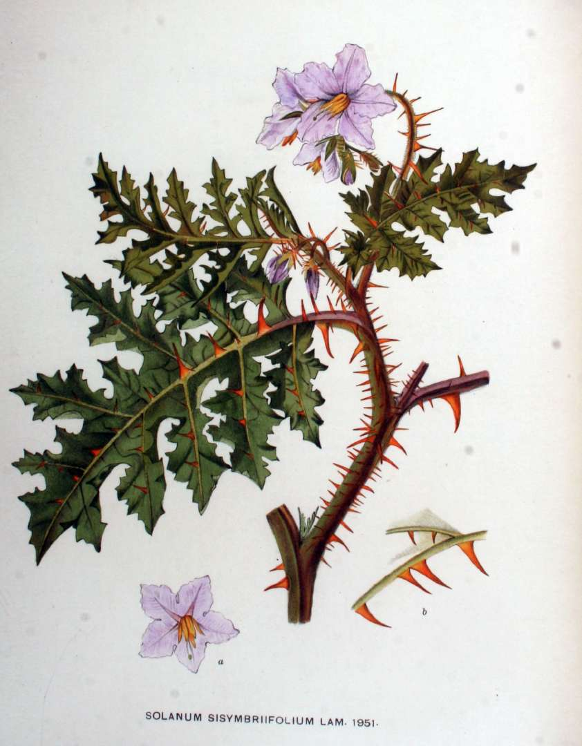 Kops et al., J., "Flora Batava", vol. 25: t. 1951